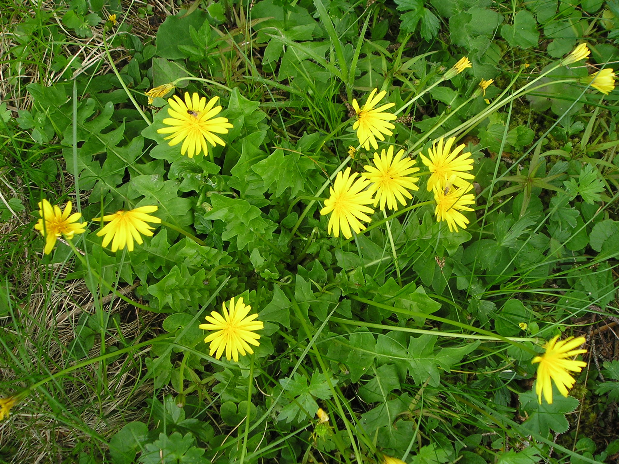 Teraxacum alpinum photographed in woodland in the Brenta Dolomites